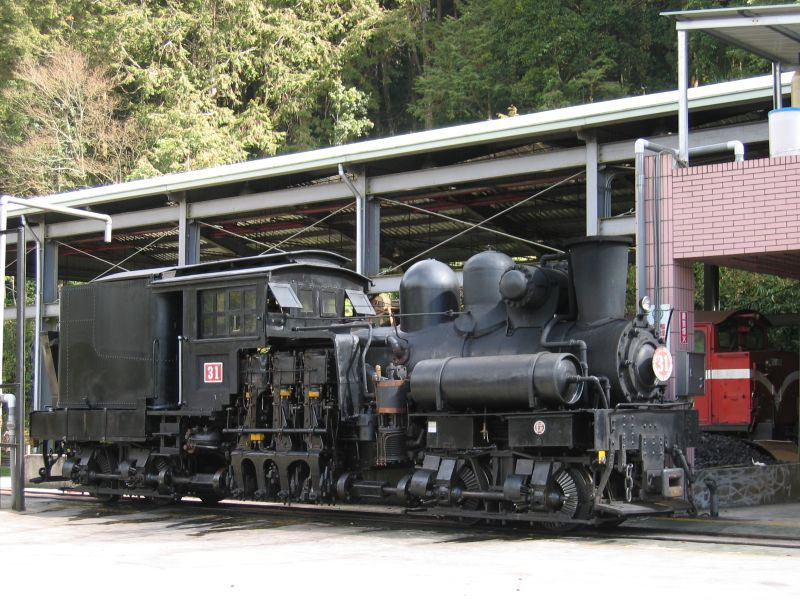 Alishan Forest Railway 28t Shay No.31 阿里山森林鐵路蒸汽火車